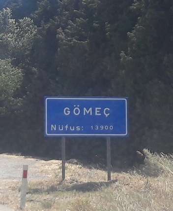 The entrance of Gömeç.